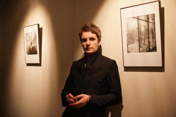 Artist Dmitry Bobrov, in an exhibition in Tokyo